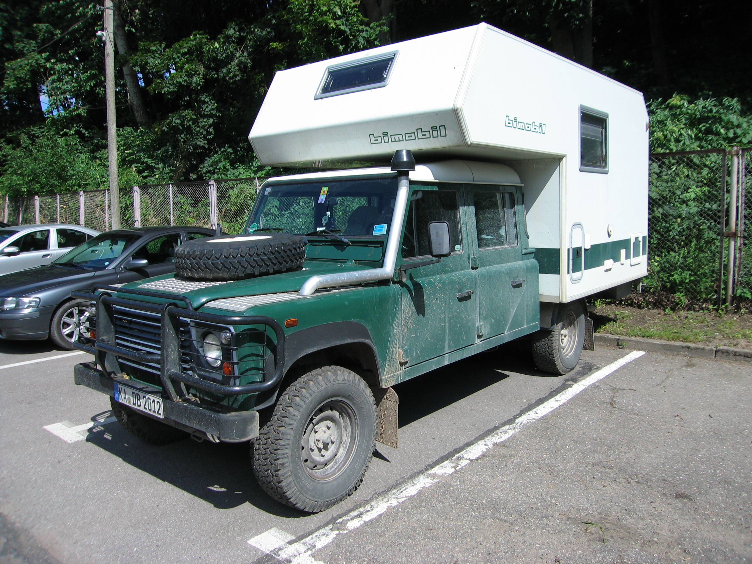 Land Rover Defender 90 with bimobil camper module (2016, Vilnius, Lithuania)